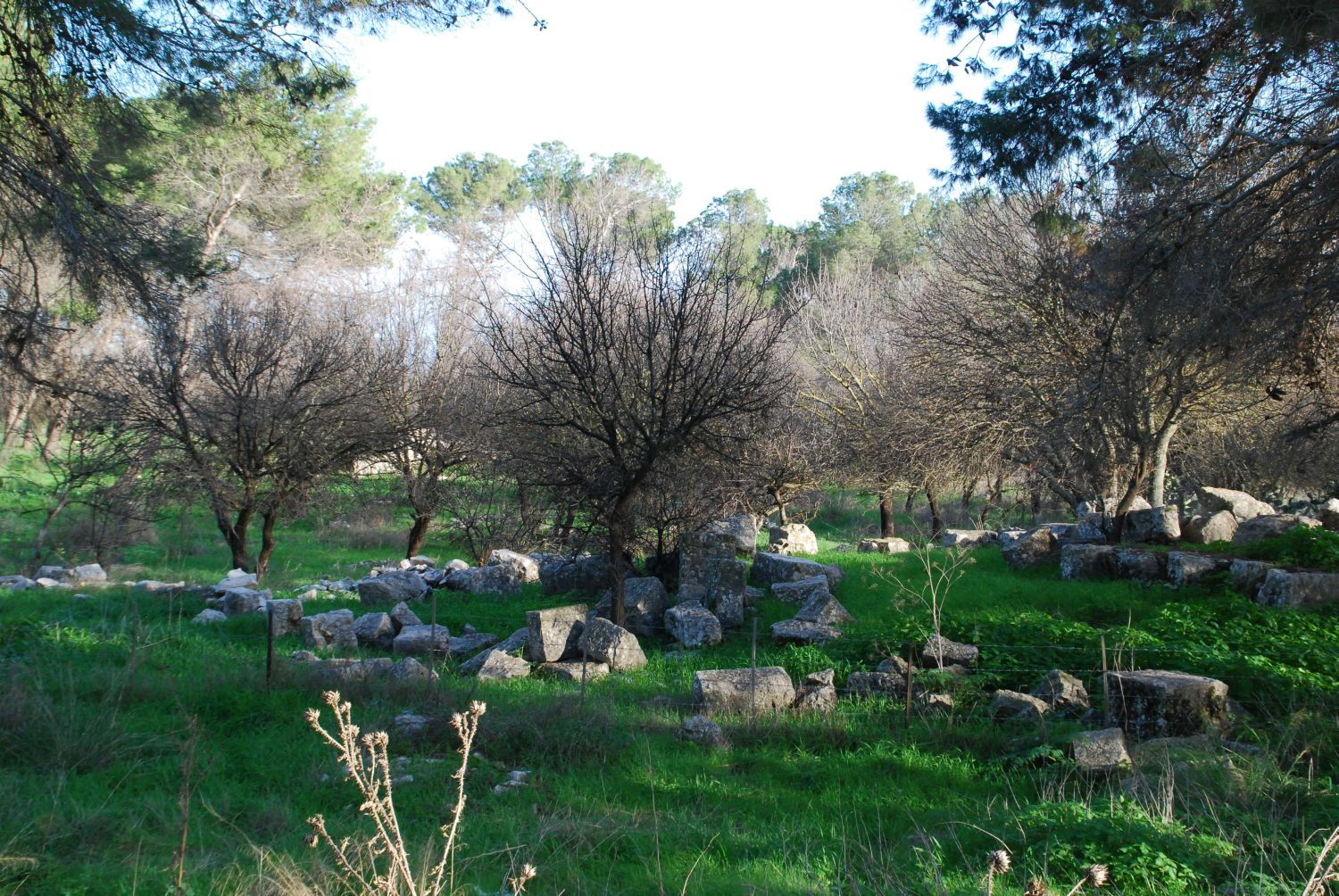 National Park